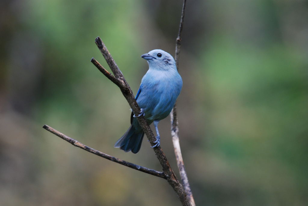 Blue Gray Tanager (Thraupis episcopus) were quite numerous at the Asa Wright Nature Center in Trinidad. It is found in a variety of habitats from forest borders to gardens and it eats on both fruit and insects.